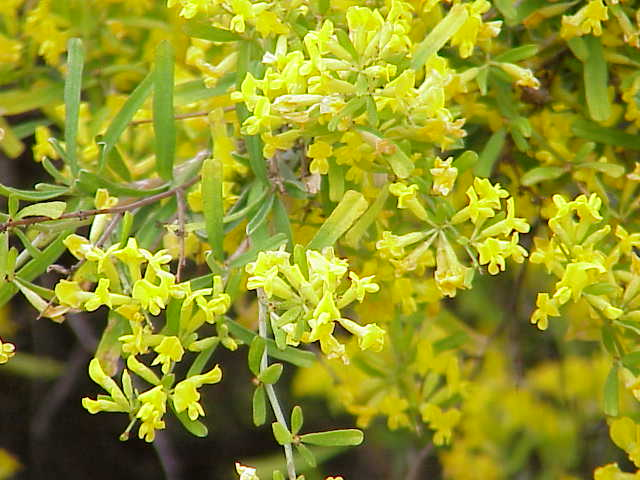 Species: Anthyllis hermanniae Family: Fabaceae Image No. 2